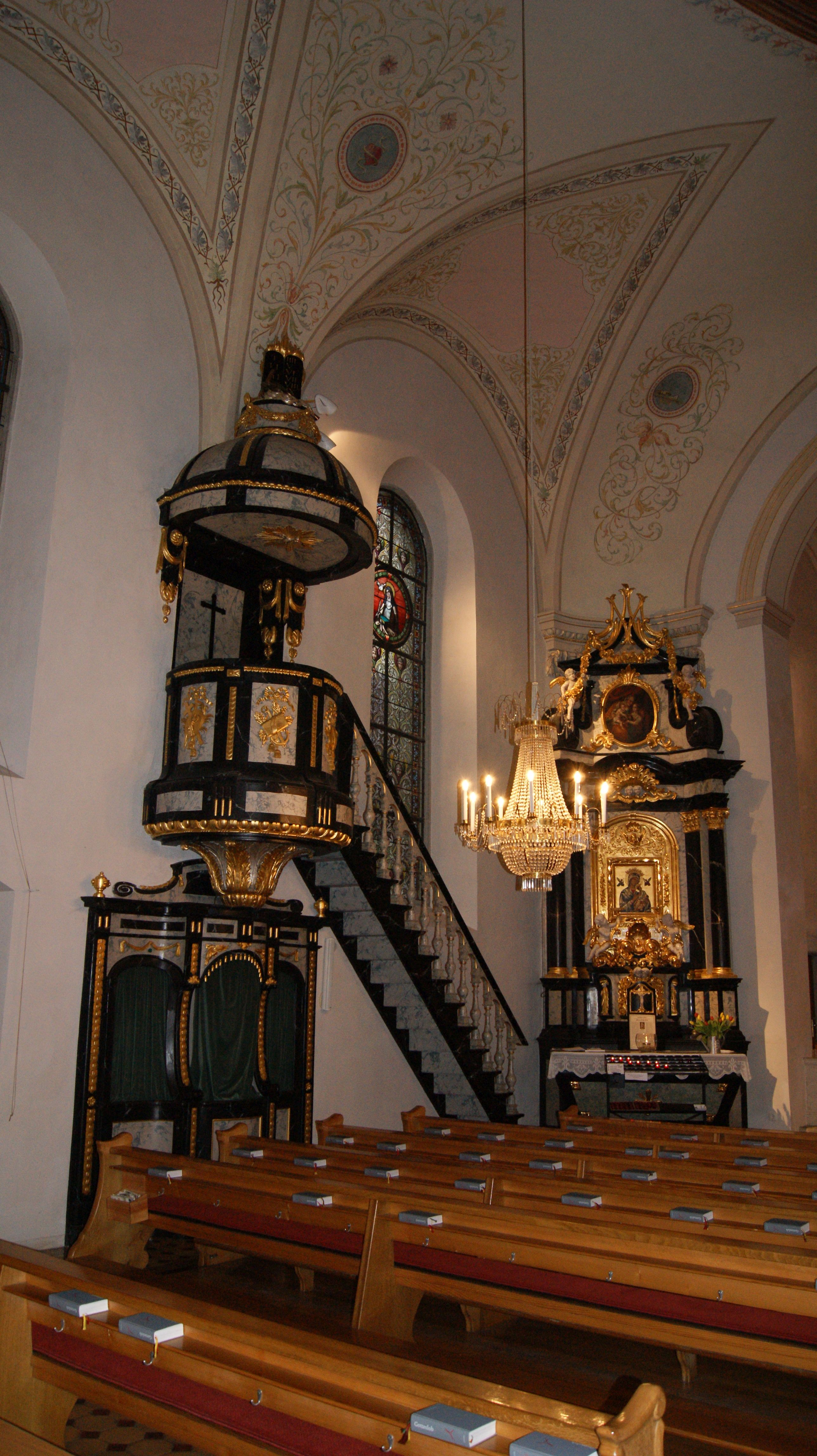 Parish Church of the Visitation in Haselstauden. Pilgrimage church in Dornbirn, Vorarlberg, Austria. Pulpit on the left side of Josef Spiegel, by about 1820 emerged.